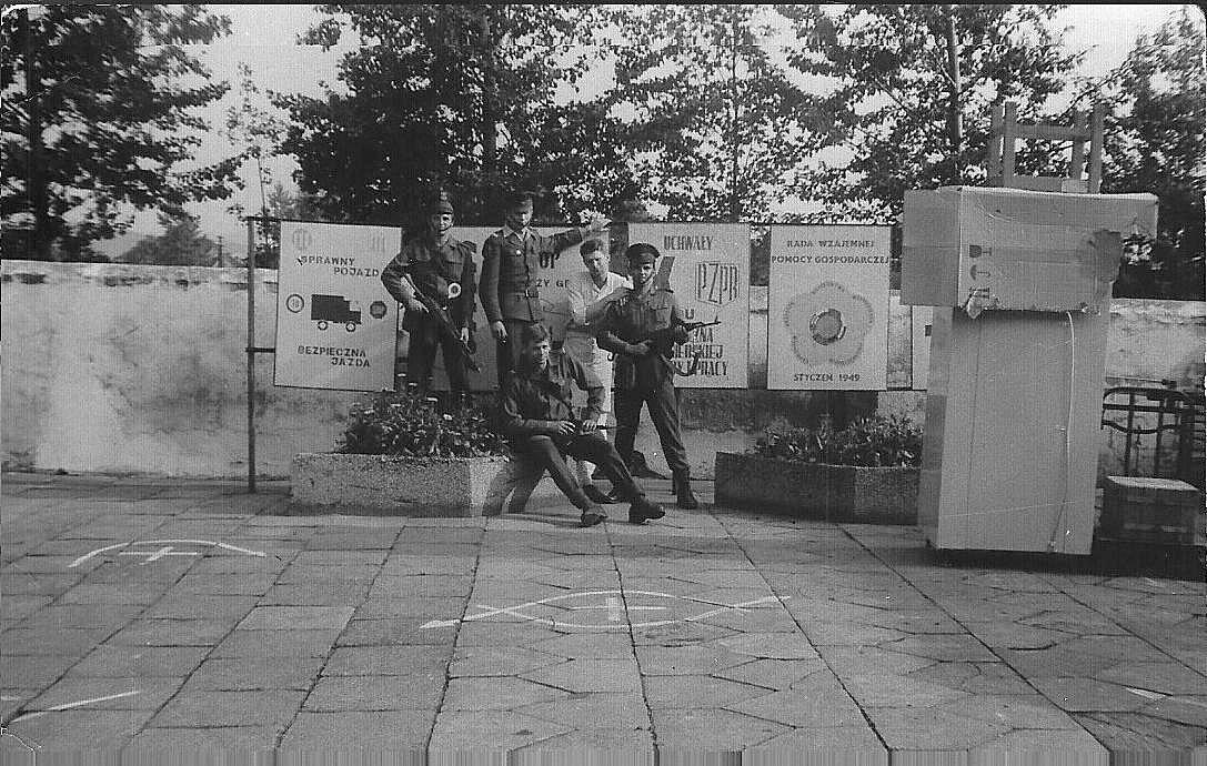 Border Protection Forces in Gierałcice